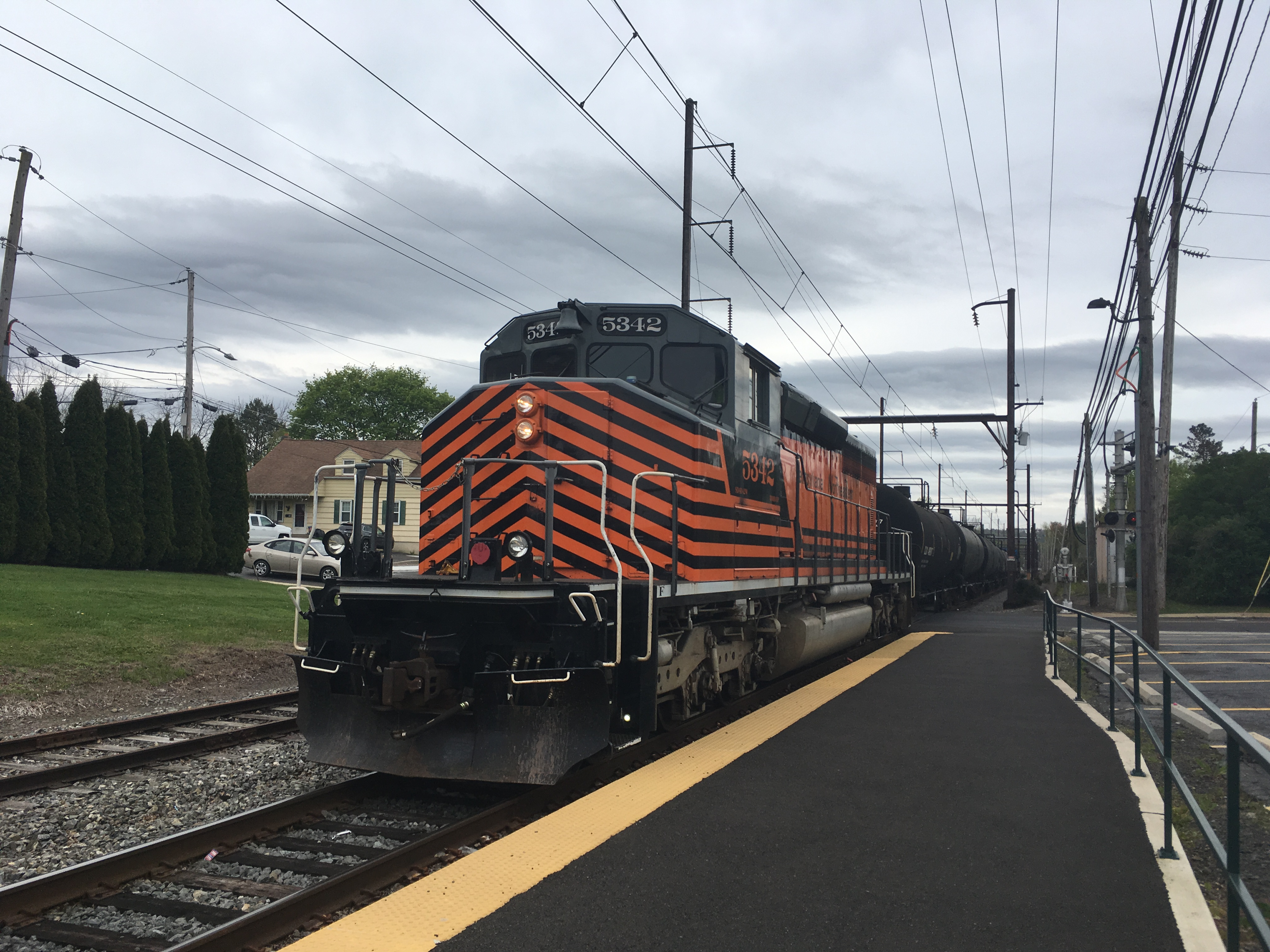 Pennsylvania Northeastern Railroad GMD SD40-2W 5342 trails on a local freight train southbound on SEPTA’s Warminster Line past Hatboro Station in Hatboro, Pennsylvania